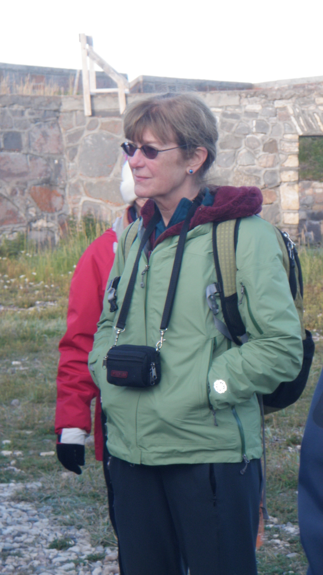 Mary E. Power in her University of California, Berkeley, Laboratory